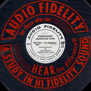 Label and sleeve from one of the first mass produced stereo records released in the U.S., by Audio Fidelity, their second stereo demonstration record.